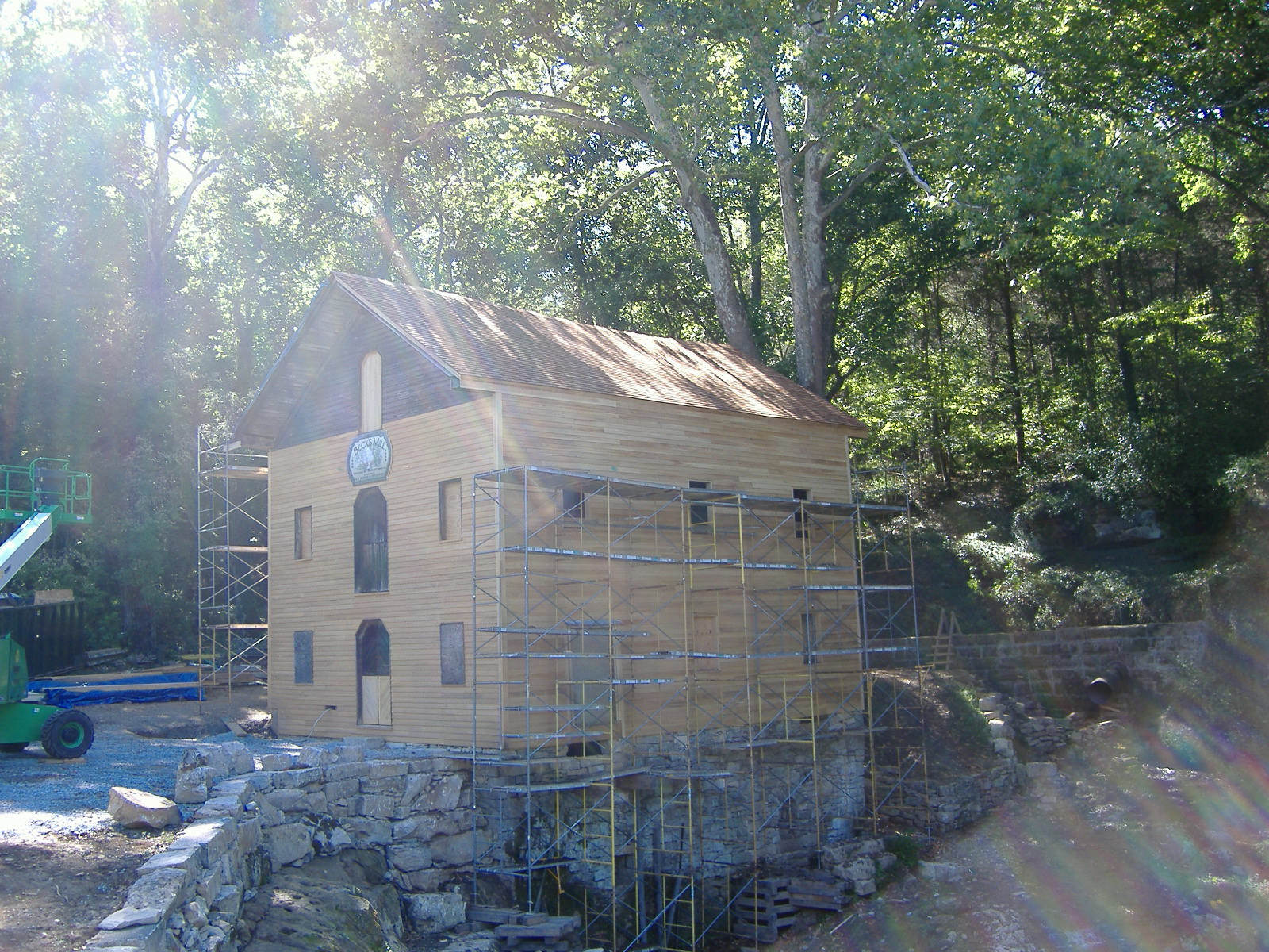 Picture of Beck's Mill in Washington County, which is on the National Register of Historic Places, after the main period of restoration in the summer of 2007.